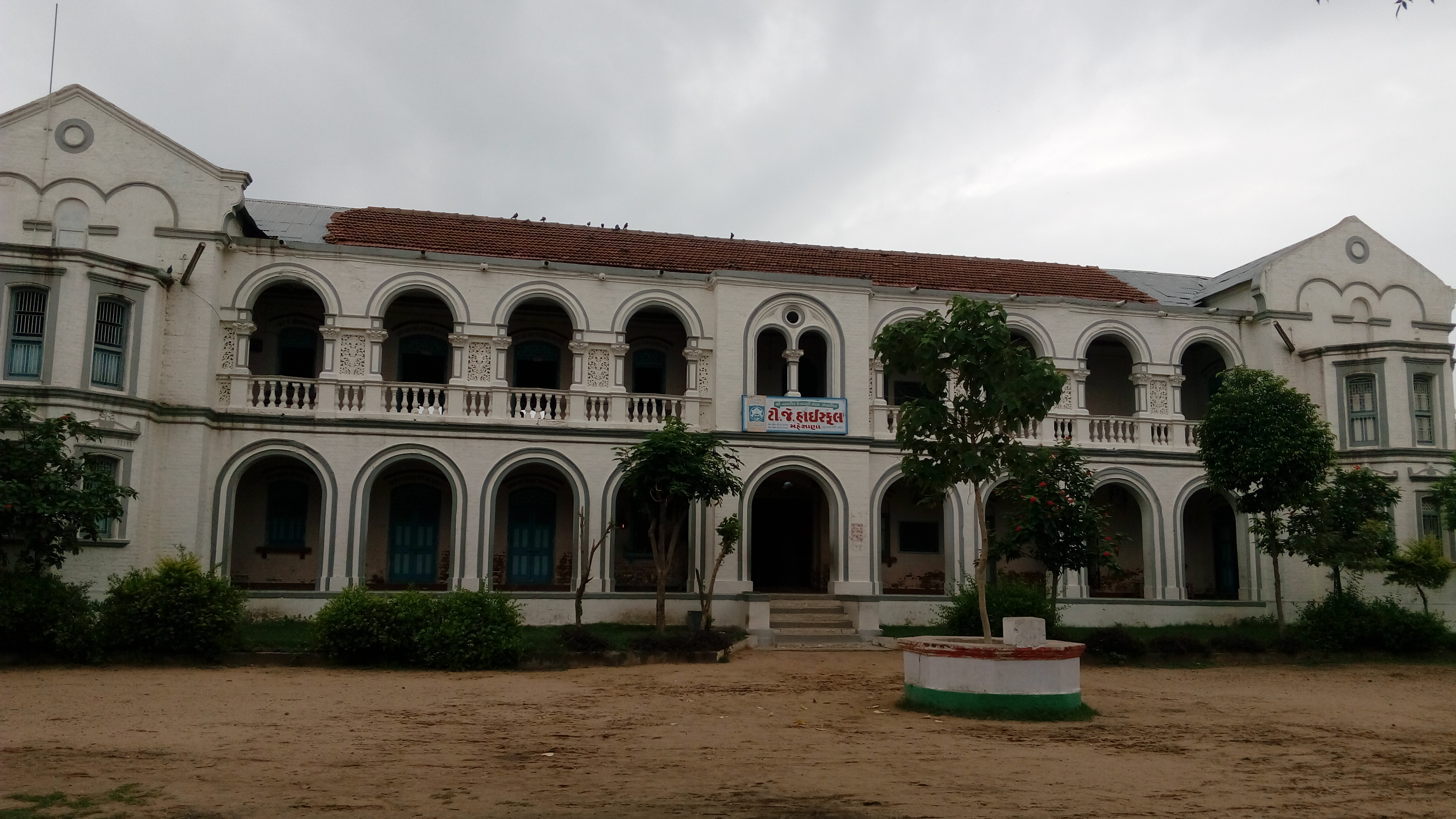 T. J. Highschool in Mehsana, Gujarat, India established in 1889